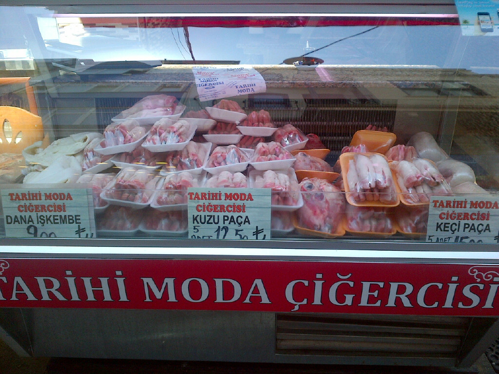 Offal shop at the Historric market of Kadıköy, in Istanbul. Some products in display are: Cow tripe (to make "işkembe" soup) and sheep/lamb and goat hoofs to prepare "kuzu paça", a dish from the Turkish cuisine.